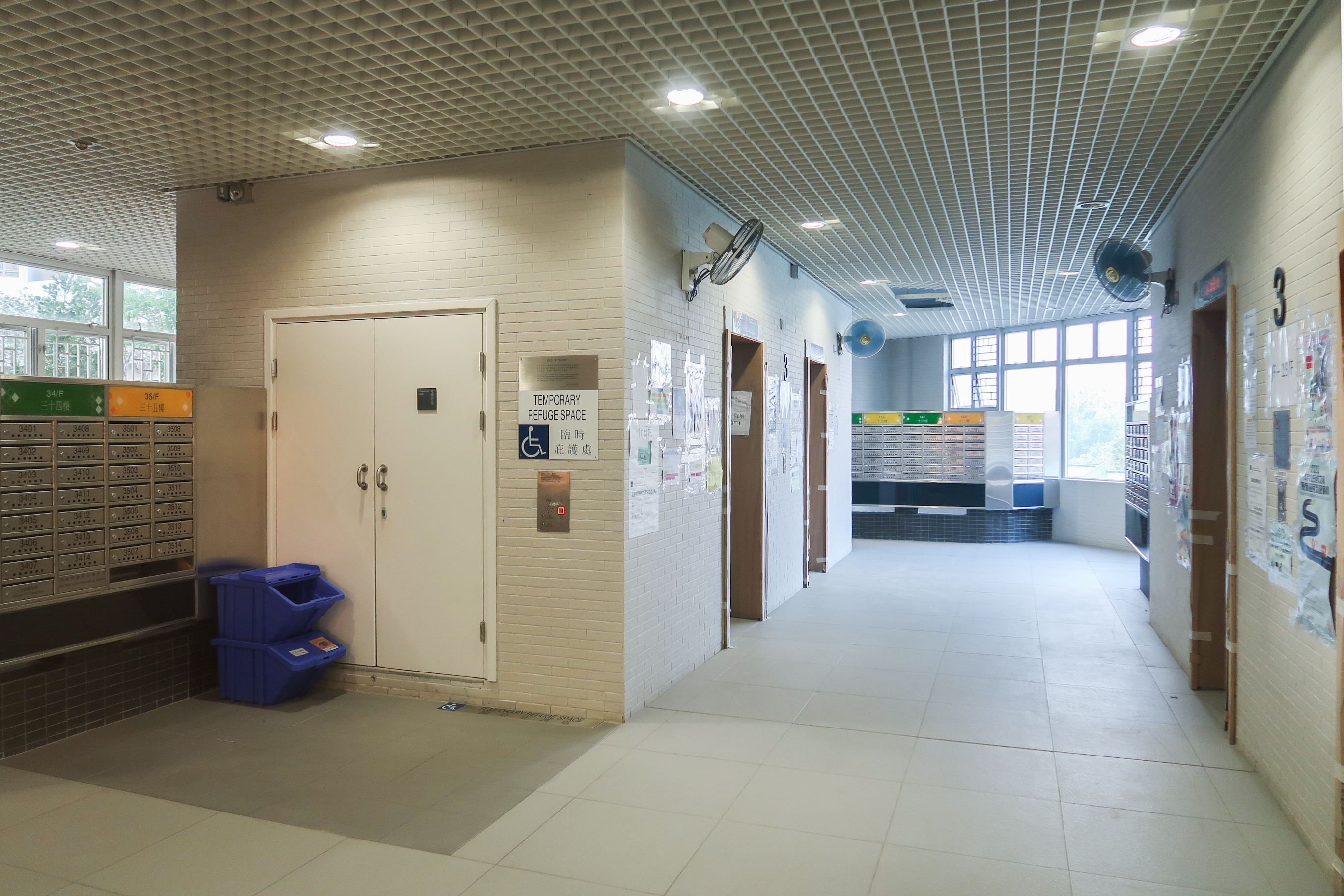 Po Shek Wu Estate Residential lobby